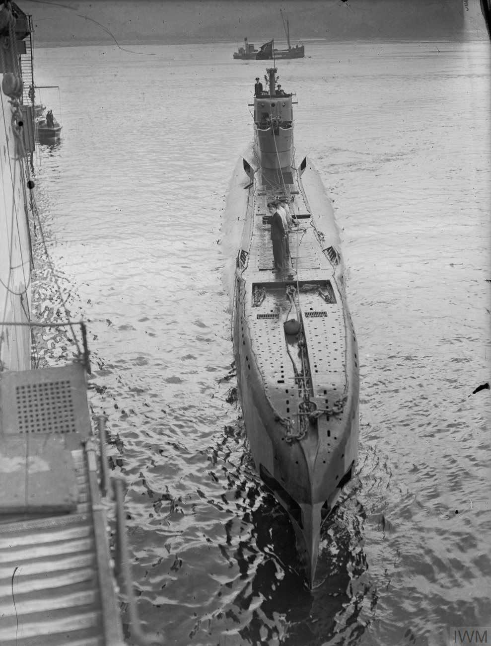 IWM caption : HMSM TUNA, with her Jolly Roger flying after success against a U-Boat, approaches the depot ship HMS FORTH at Holy Loch.